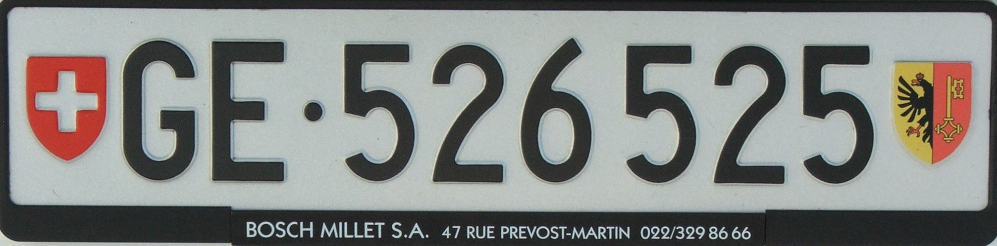 Vehicle licence plate from Switzerland as seen in 2007. "GE" stands for Geneva canton.